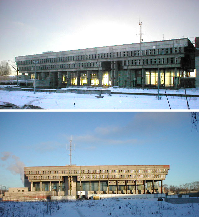 Building of new transit railstation in Kazan that no completed and pulled down to 2011